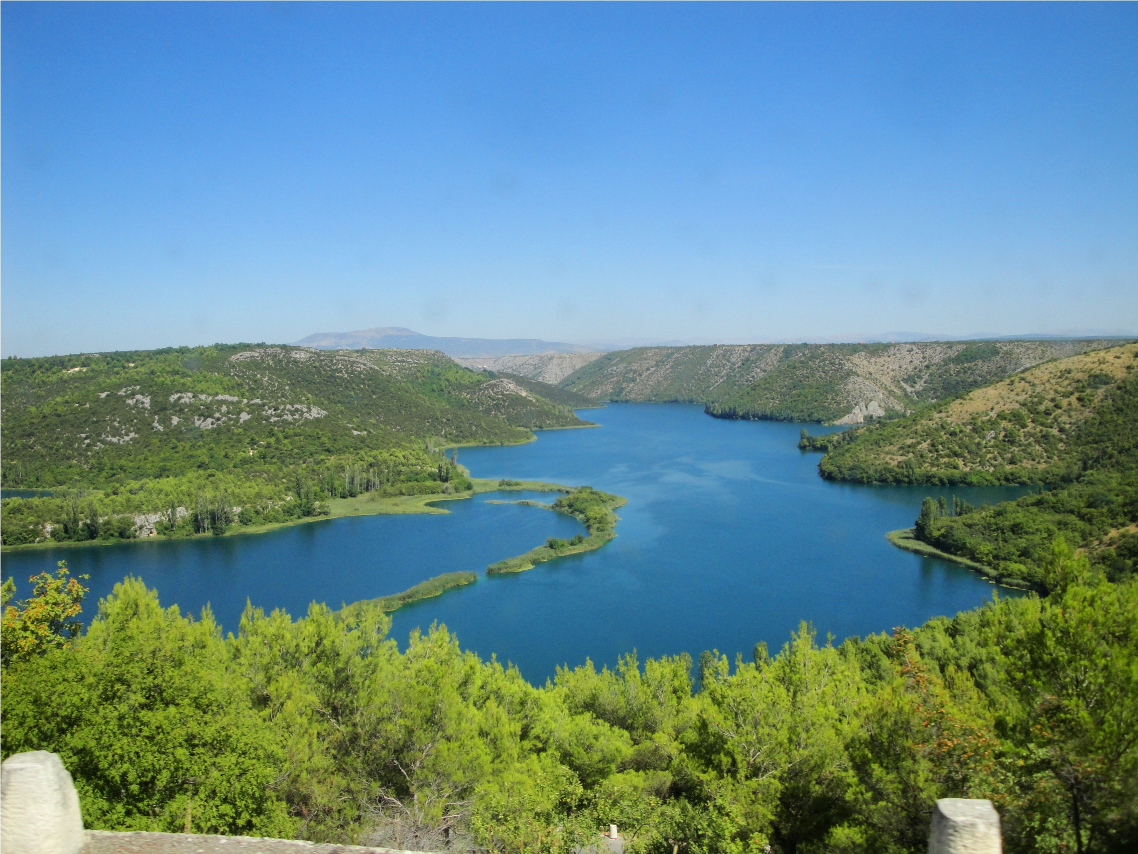 Krka National Park